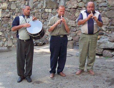 Armenian folk musicians.